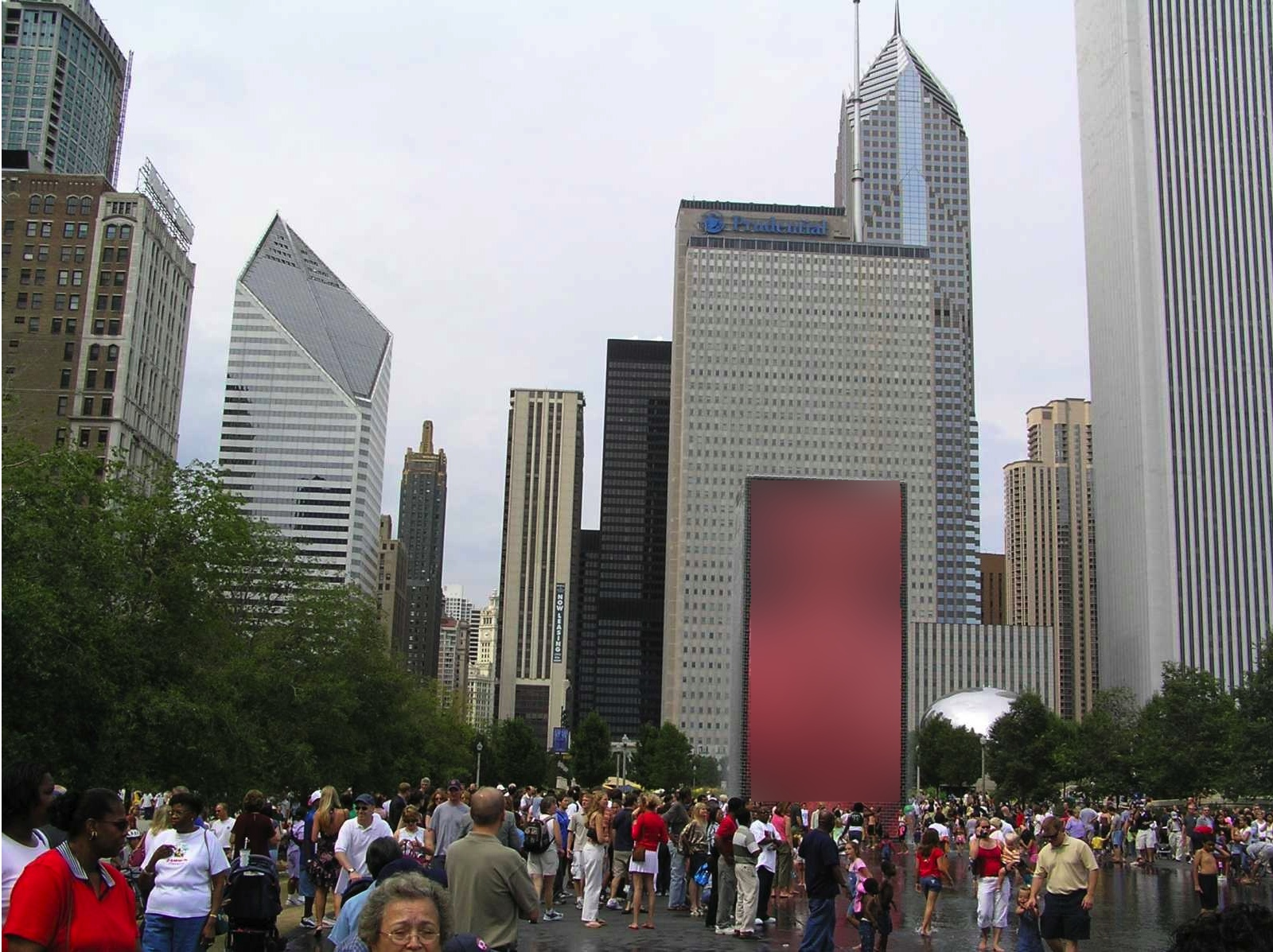 Crown Fountain in Millennium Park, Chicago, Illinois, USA.